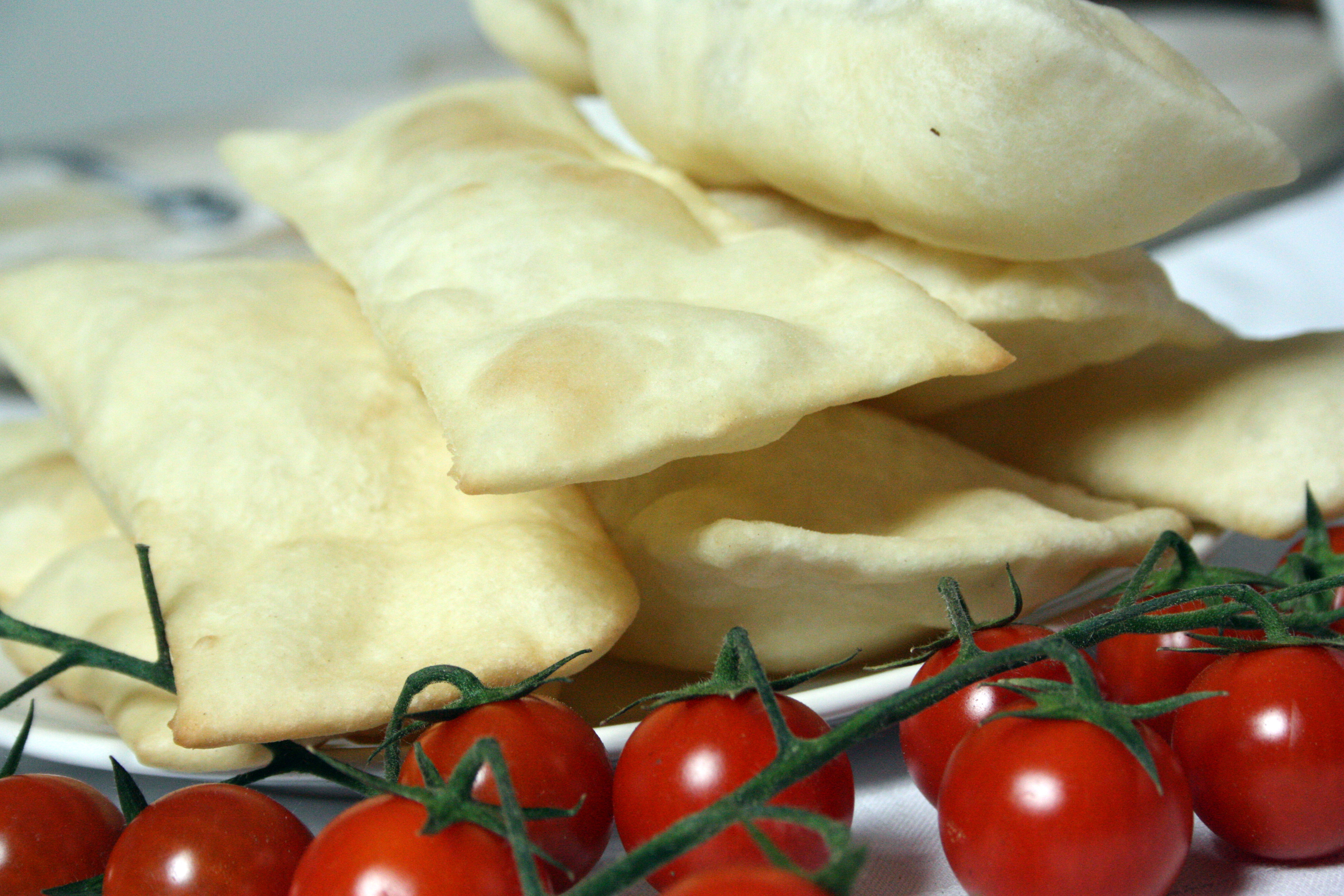 Gnocco fritto is a typical dish of Modena, made of fried pastry.